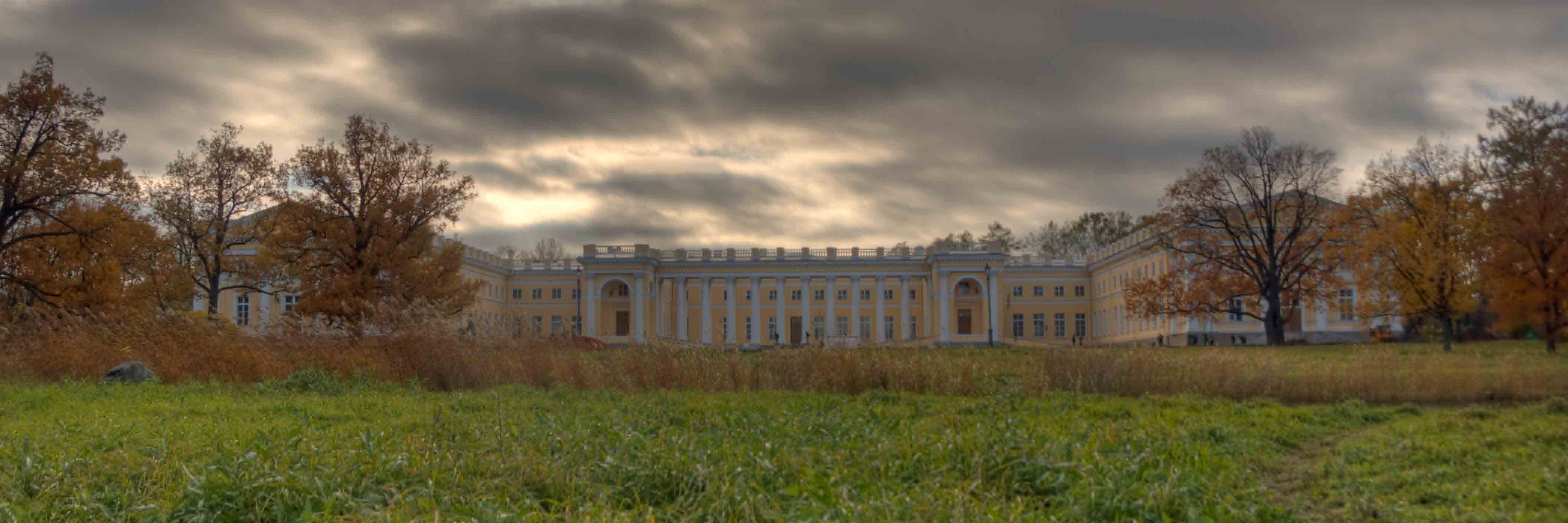 Alexander Palace